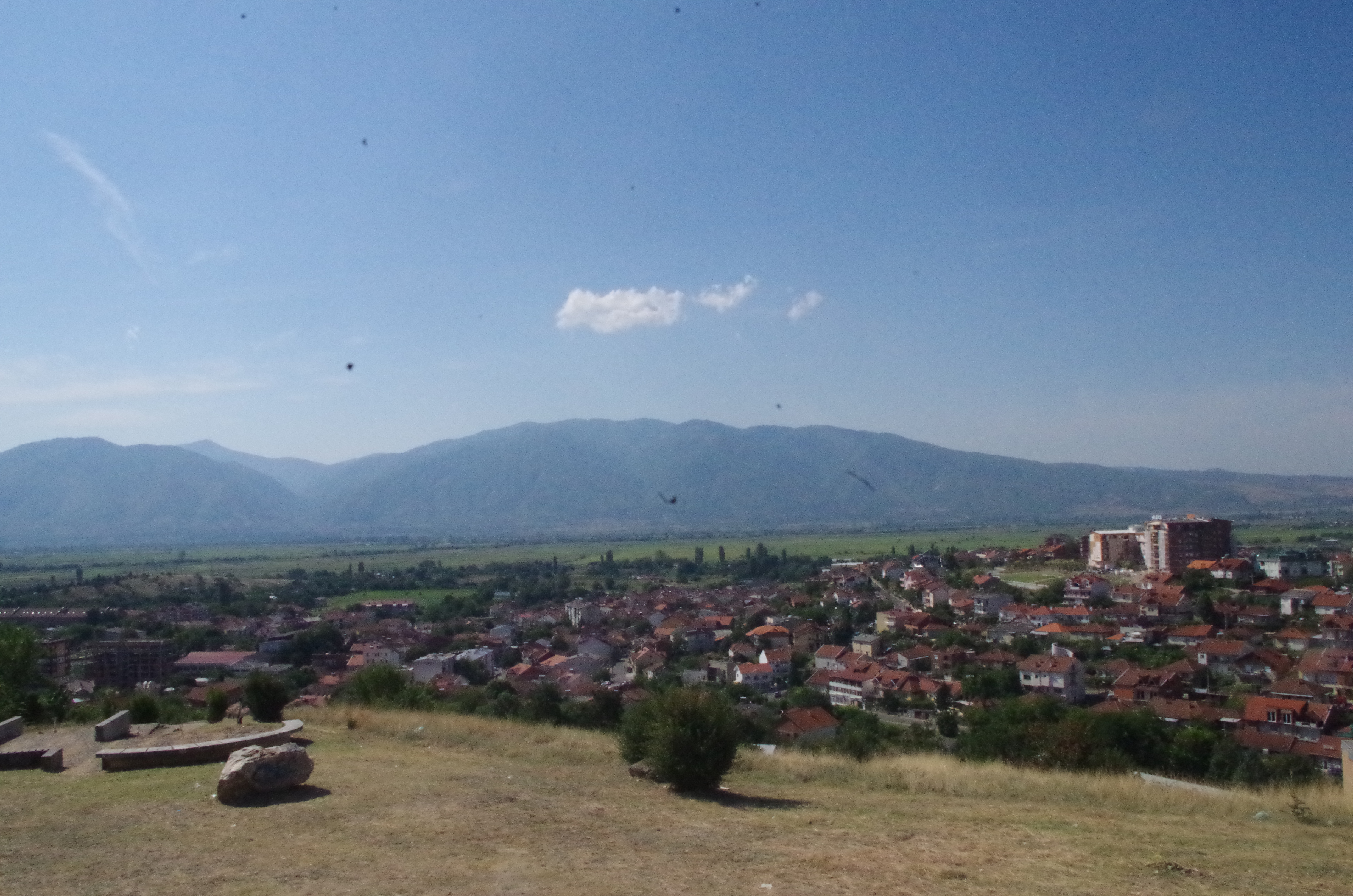 View of the western part of the town of Kochani, Macedonia